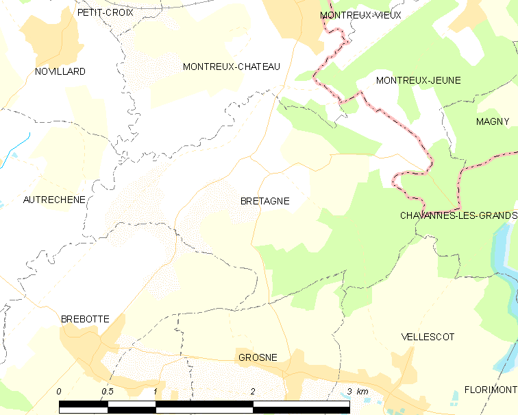 Map of French municipality Bretagne